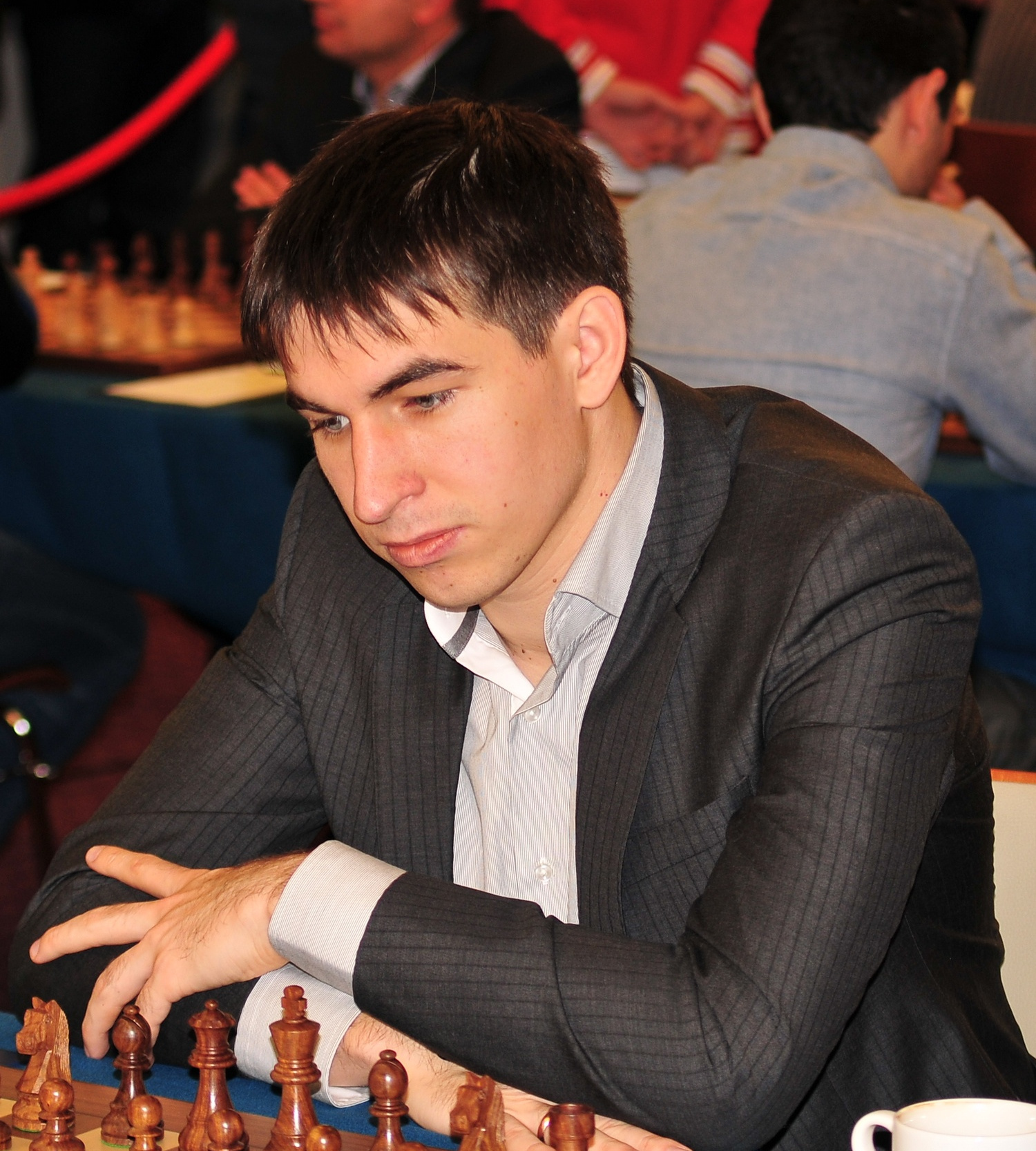 GM Dmitry Andreikin, European Chess Team Championship Warsaw 2013, cut version of Dmitry_Andreikin_2013.jpg